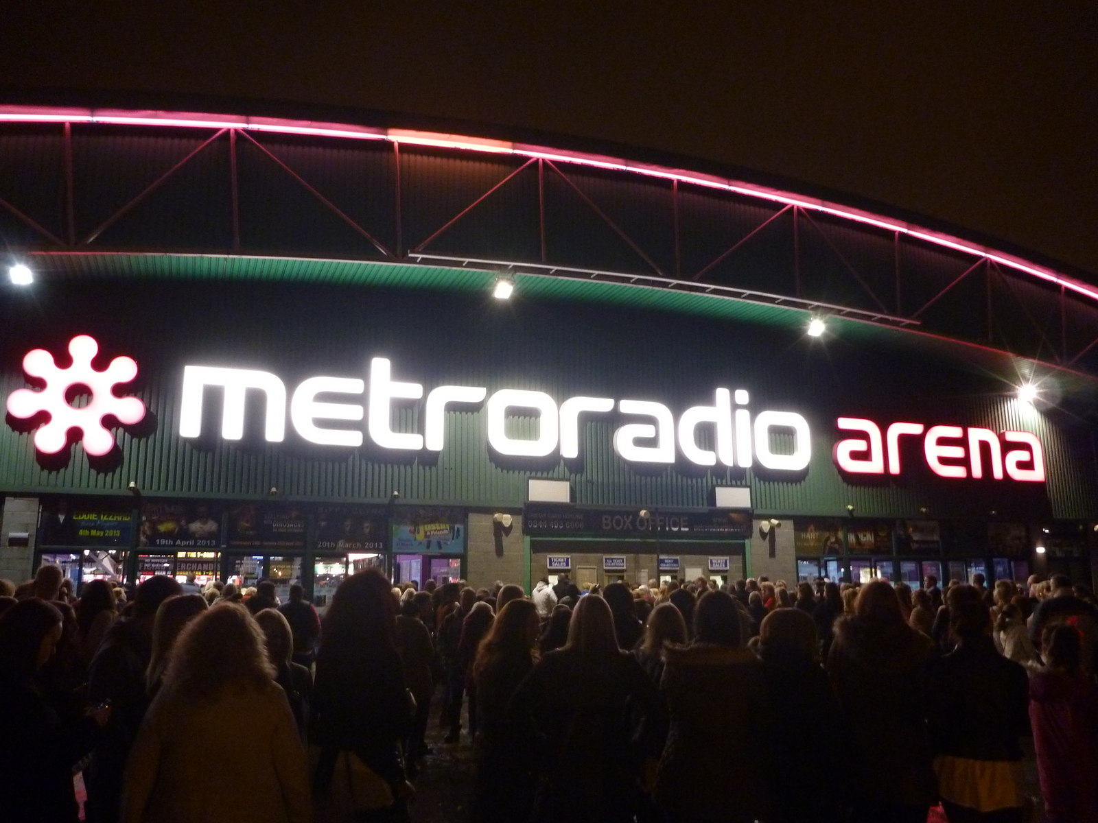 Newcastle Townscape : Approaching The Metro Radio Arena